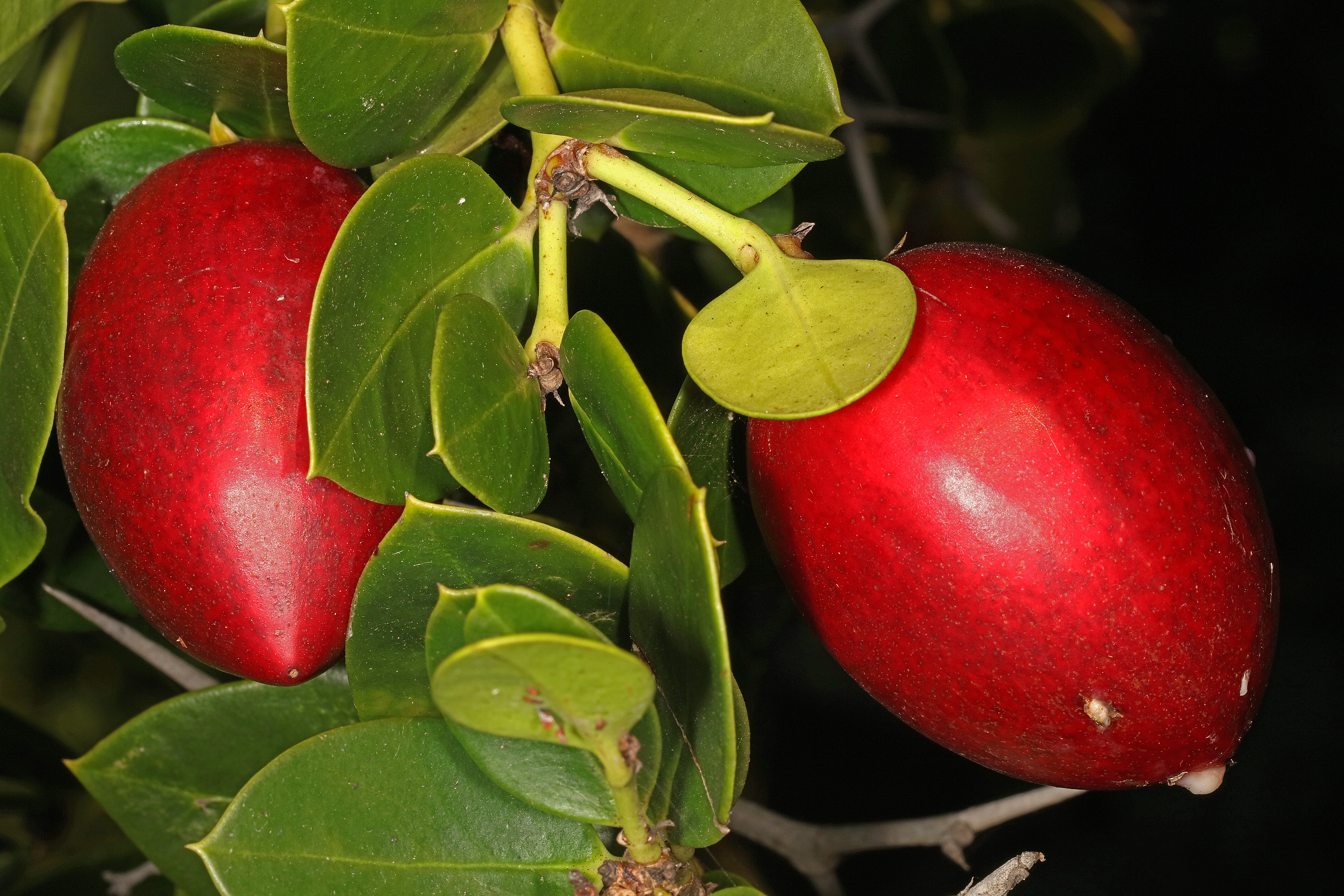 Carissa macrocarpa, fruit; coastal dune thicket, Kwelera north of East London, Eastern Cape, Soth Africa